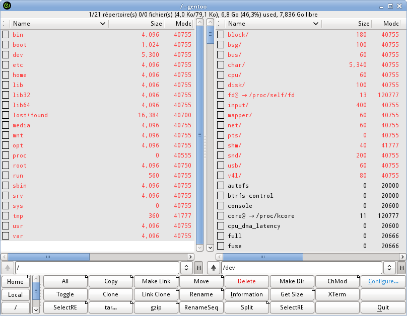 Screenshot of the Gentoo file manager v0.19.12 running under Xfce v4.8.